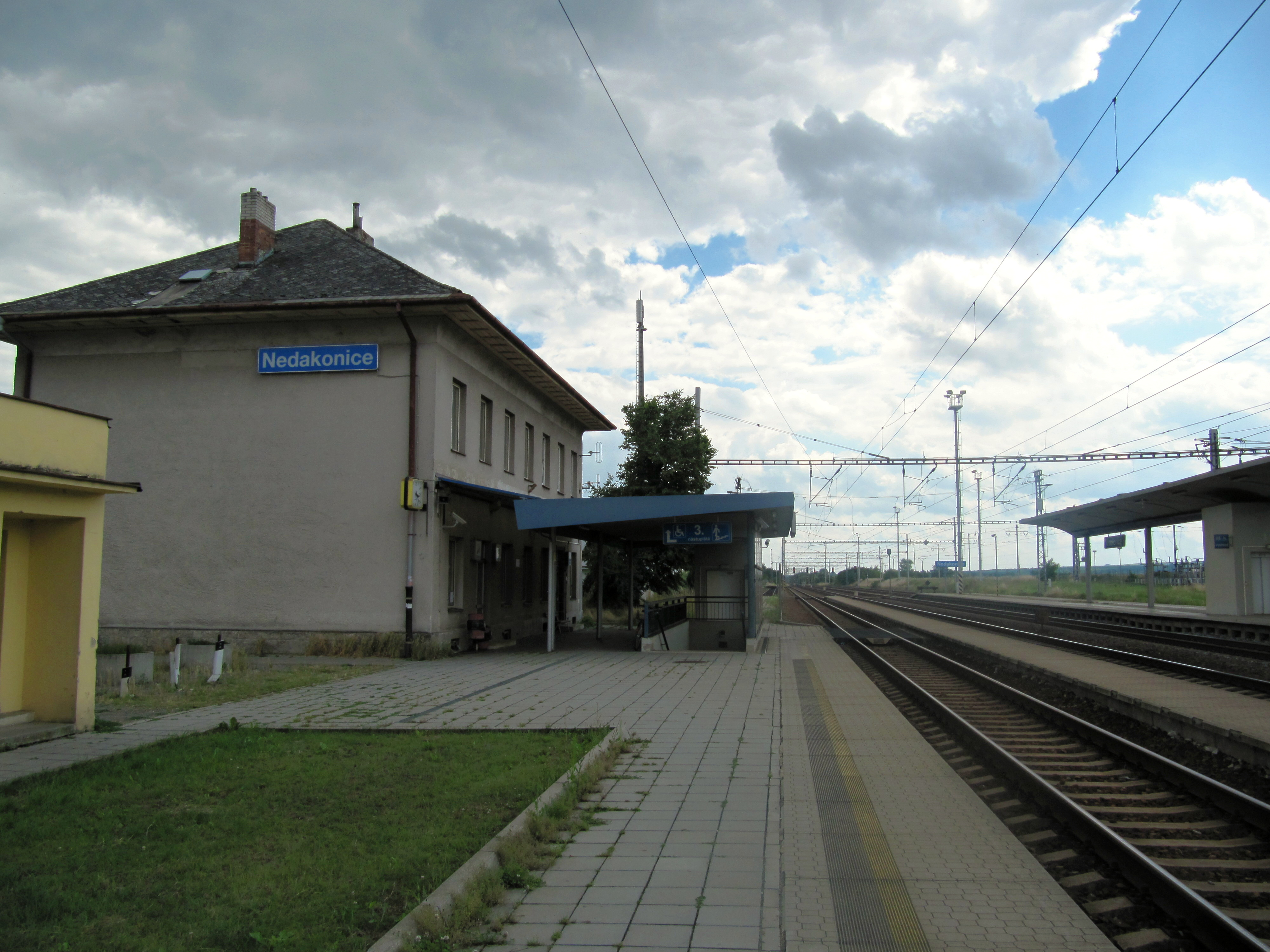 Nedakonice in Uherské Hradiště District, Czech Republic. Train station.